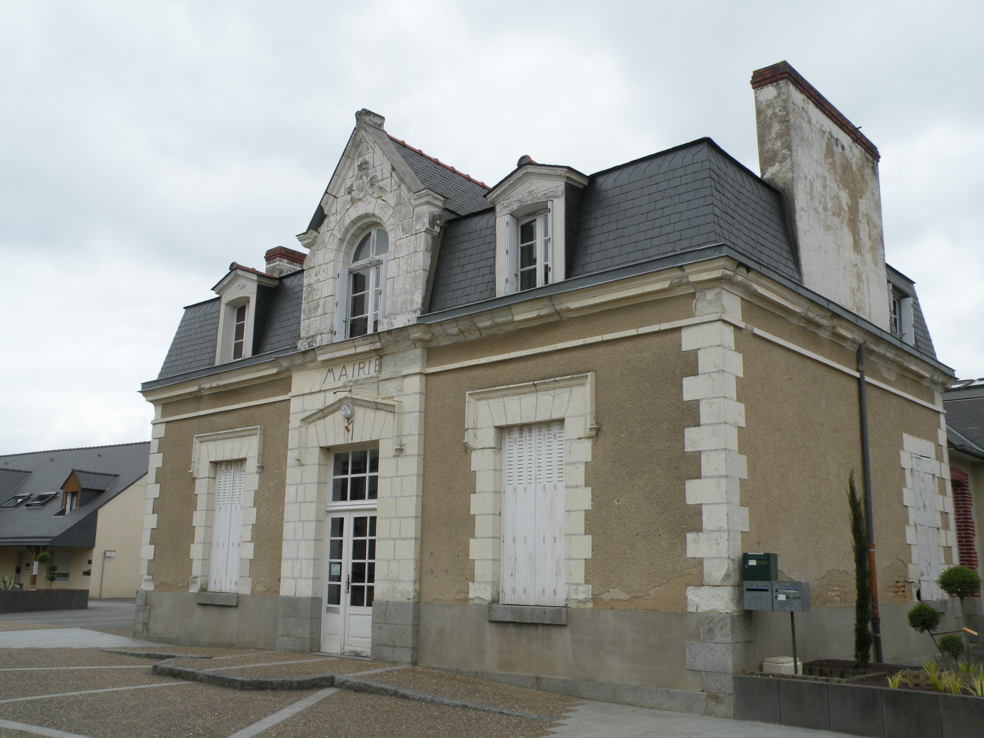 Town hall of Saint-Armel, Ille-et-Vilaine.